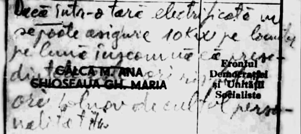 Protest vote for the Romanian Great National Assembly (MAN) in the early elections of Tulcea County, November 1987; voters were given a choice between candidates of the Front of Socialist Unity and Democracy, in this case two, both of them female. The unknown protester has crossed out both names and added his own commentary on the austerity policies of communist leader Nicolae Ceaușescu: Dacă într-o țară electrificată nu se poate asigura 10 kilowați pe locuitor pe lună înseamnă că președintele ori e [?], ori e bolnav de cultul personalității ("If an electrified country cannot ensure 10 kilowatts a month per inhabitant, then it follows that its president is either a [?] or driven mad by the cult of personality").